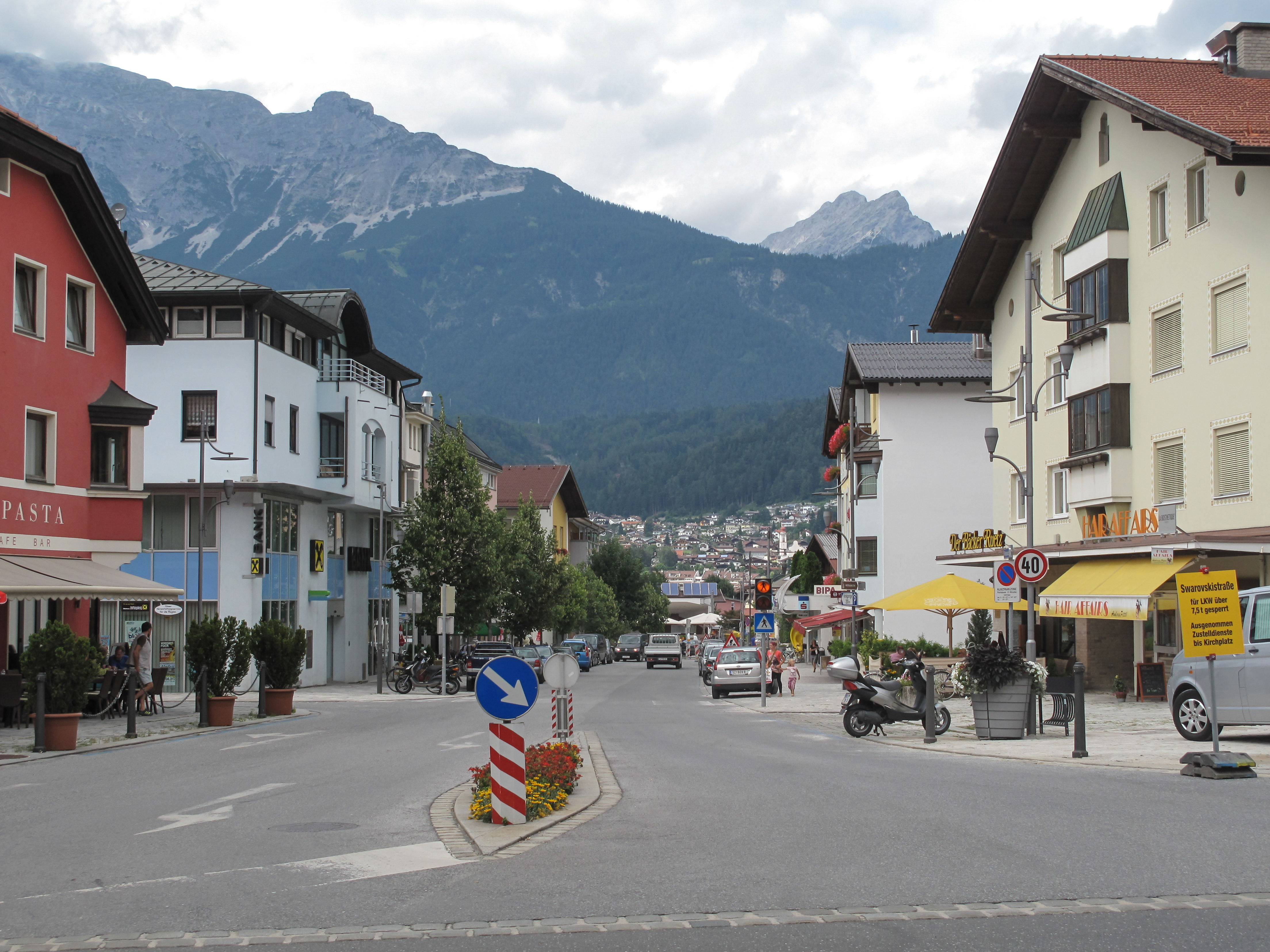 Wattens, view to a street